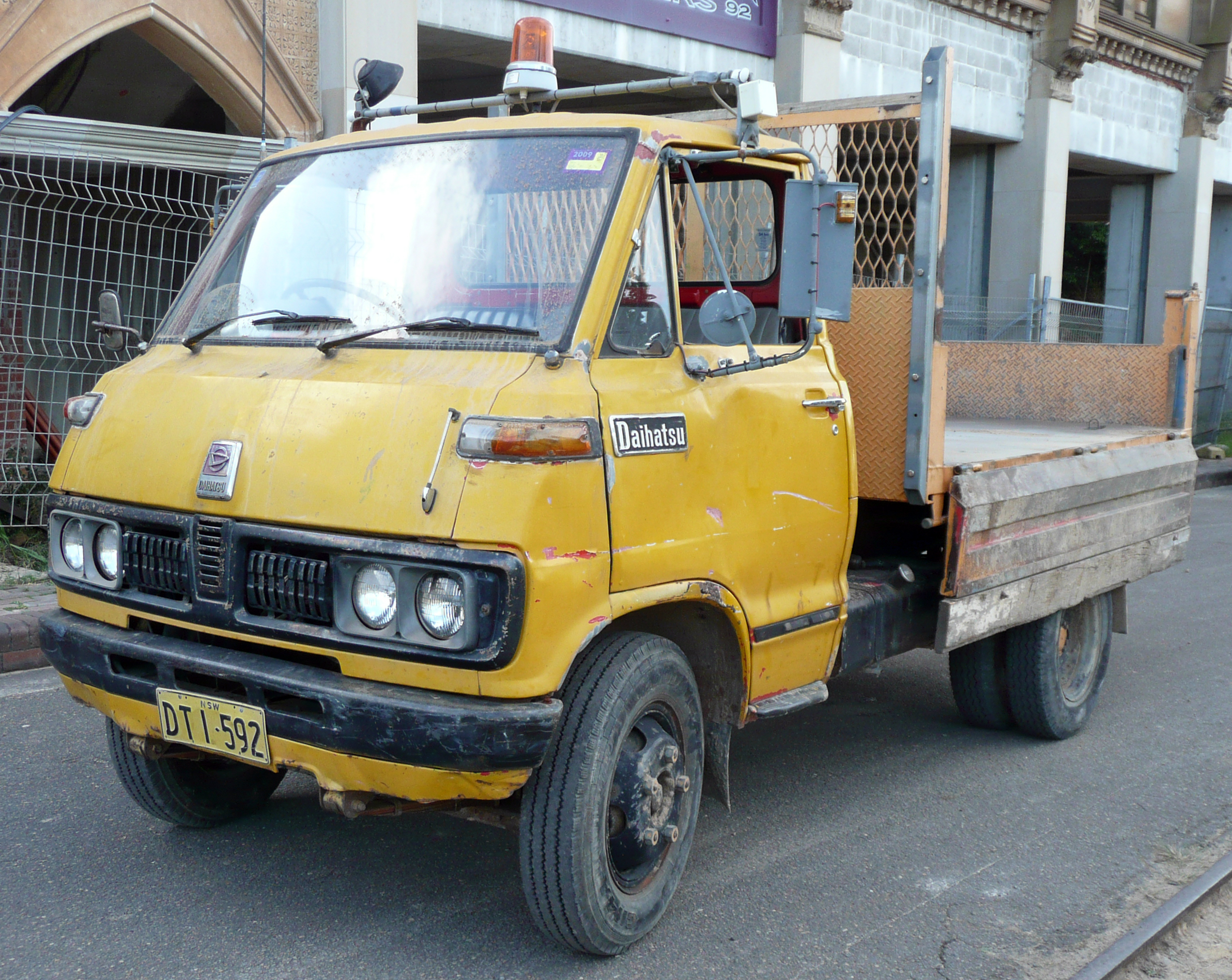 1971 Daihatsu Delta (DV26) 2000 cab chassis. Photographed in Loftus, New South Wales, Australia.